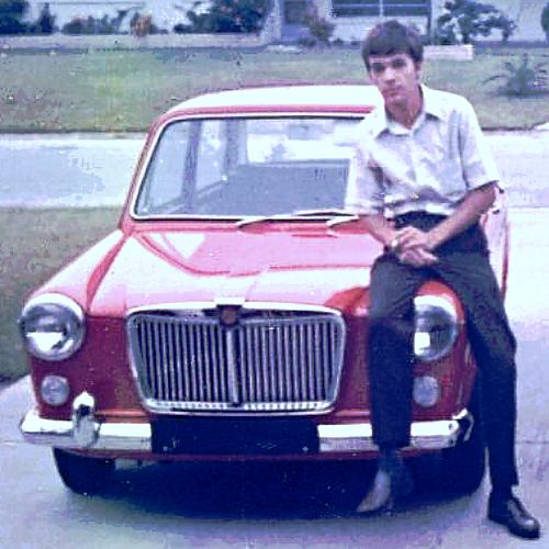 Kenneth R. Forssi in Sarasota, Florida, just prior to his move to California; 1964.